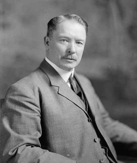 Richard E. Connell, Congressman from New York